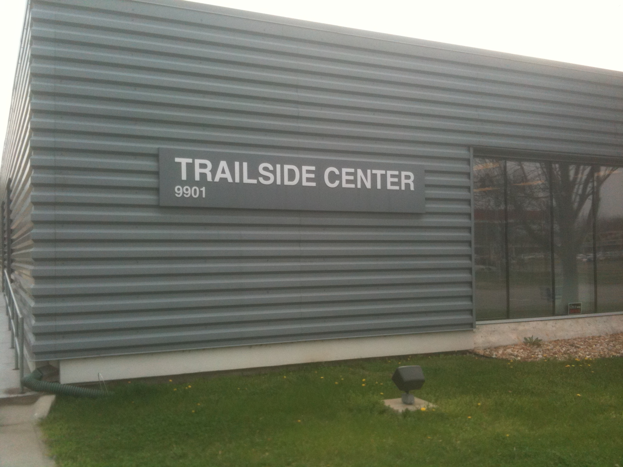 Photo of Trailside Center Building in Kansas City, Missouri